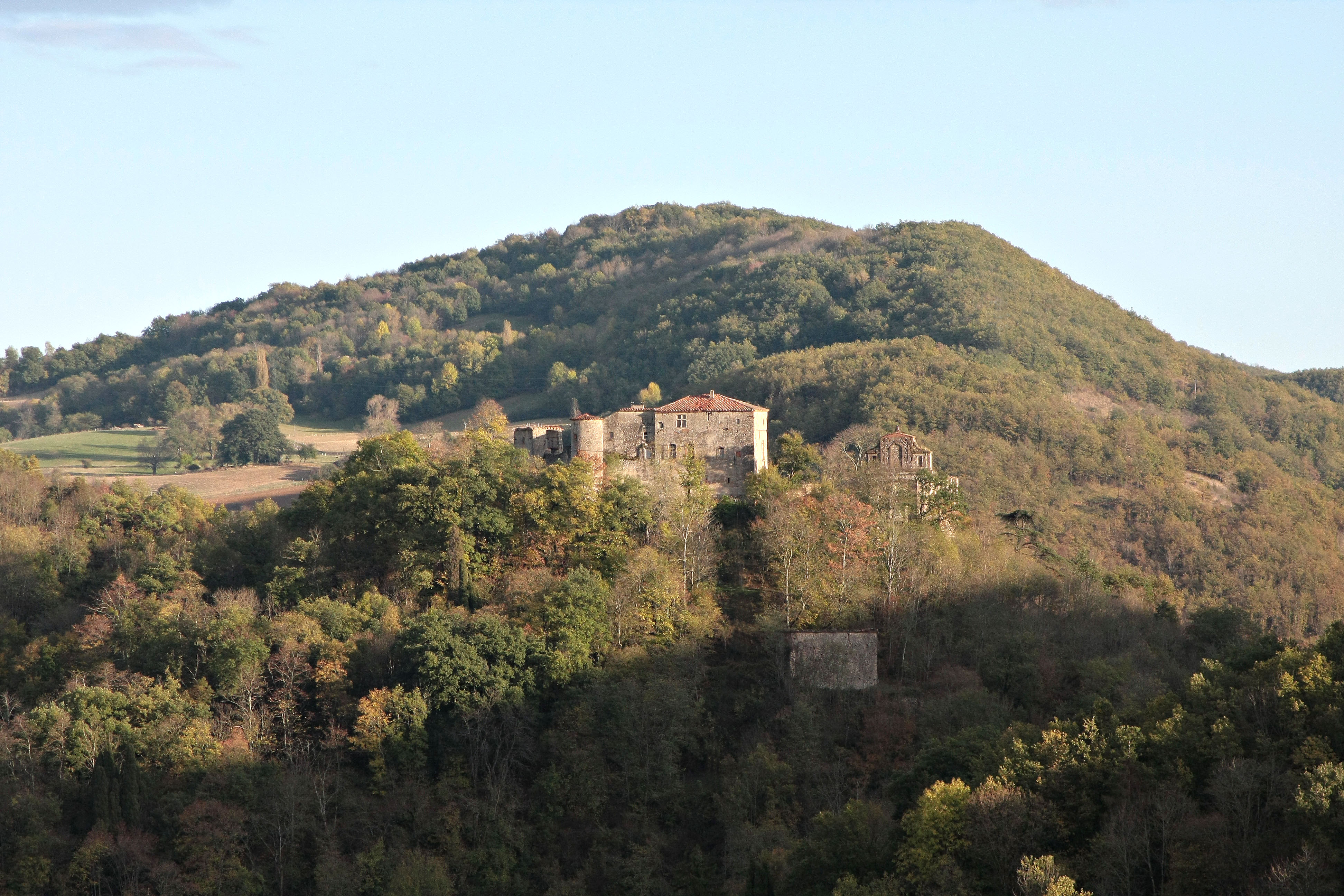 Castle of Pailhès